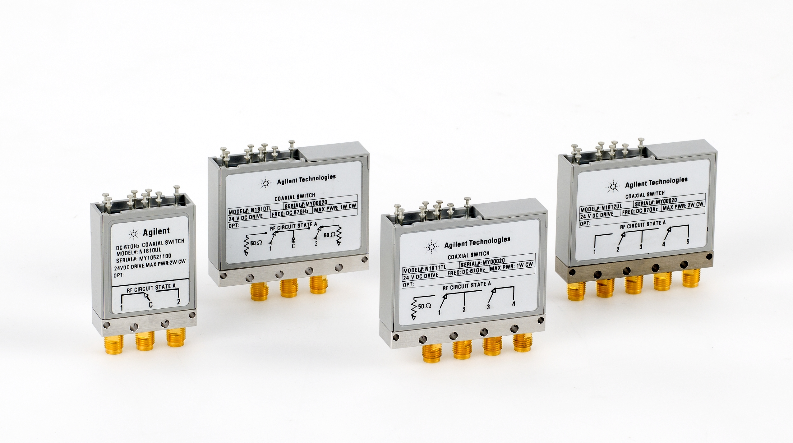 N181x Switches from Agilent Technologies